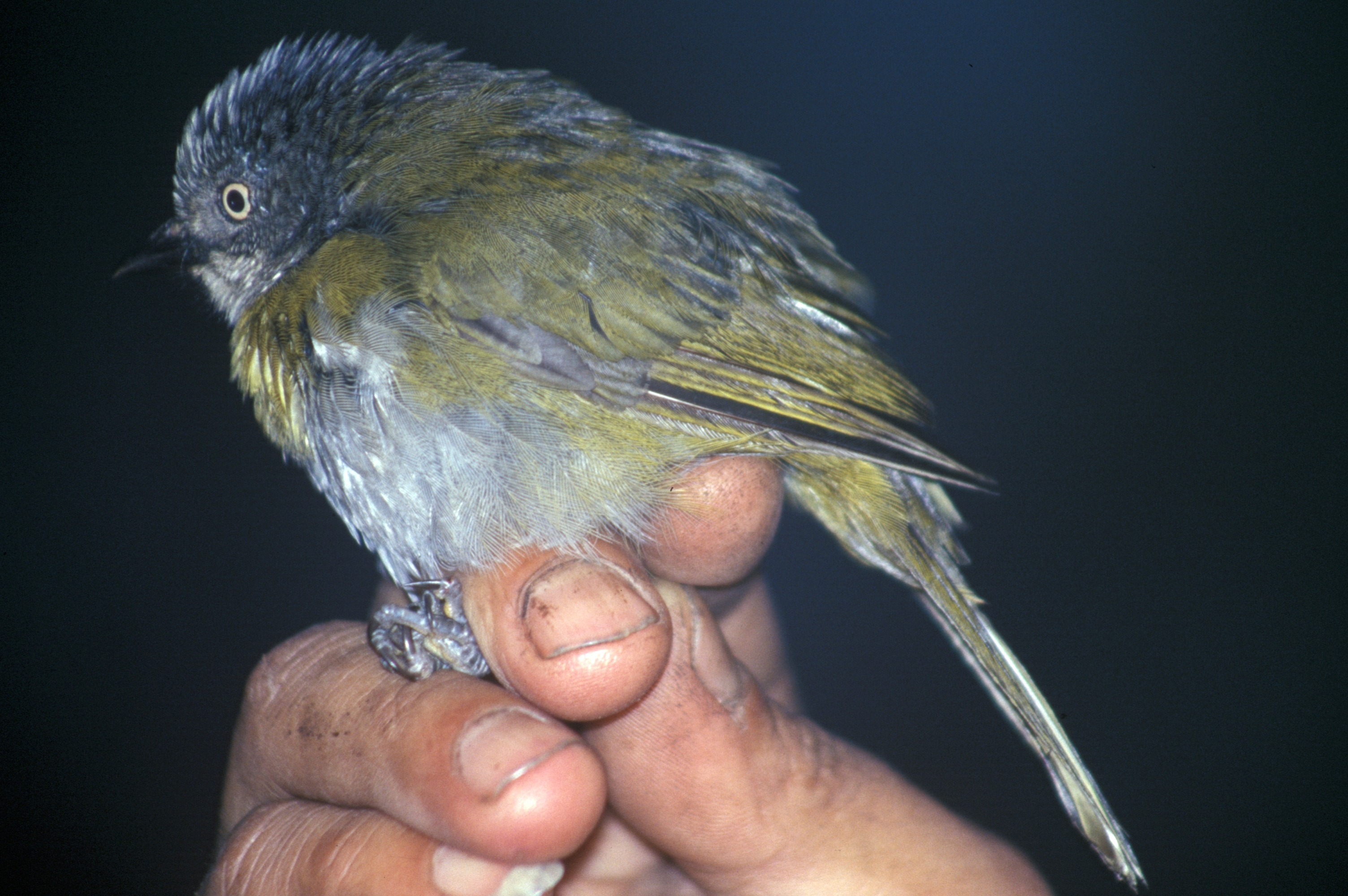 Common Bush-Tanager (Chlorospingus ophthalmicus) from Cordillera del Cóndor, Ecuador.